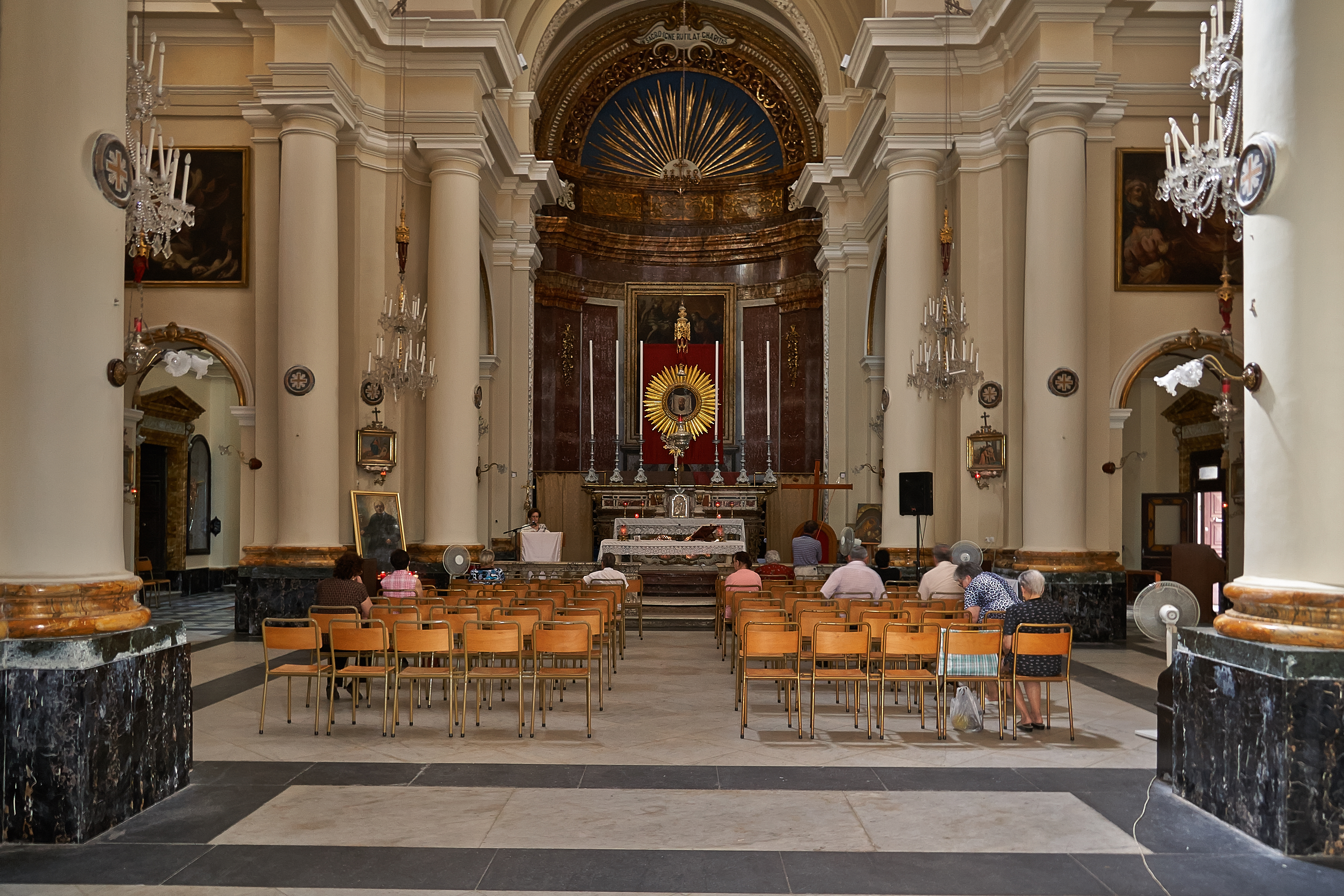 Valletta